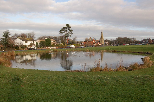 The Dub at Wrea Green. The green and The Dub at Wrea Green are a favourite picnicking spot (if the ducks don't steal your grub) the Dub is also popular with local fishermen having some very large carp in it.